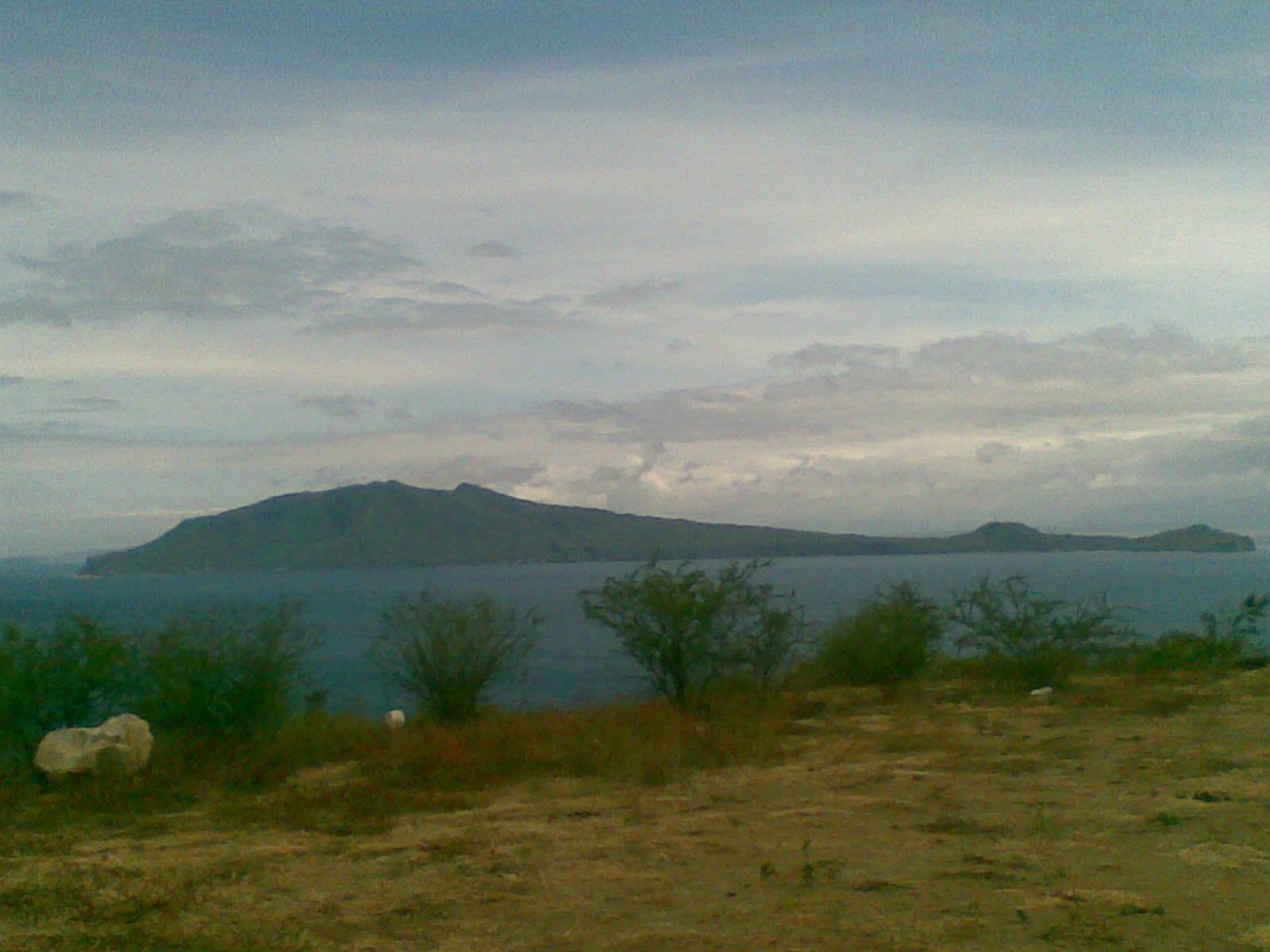 The image depicts the Verde Island, Batangas City, Philippines from Monte Maria, Brgy. Pagkilatan, Batangas City, Philippines. Tagalog: Ipinapakita ng larawang ito ang Isla Verde, Lungsod ng Batangas, Pilipinas mula sa Monte Maria, Brgy. Pagkilatan, Lungsod ng Batangas, Pilipinas.